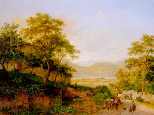 View at Como